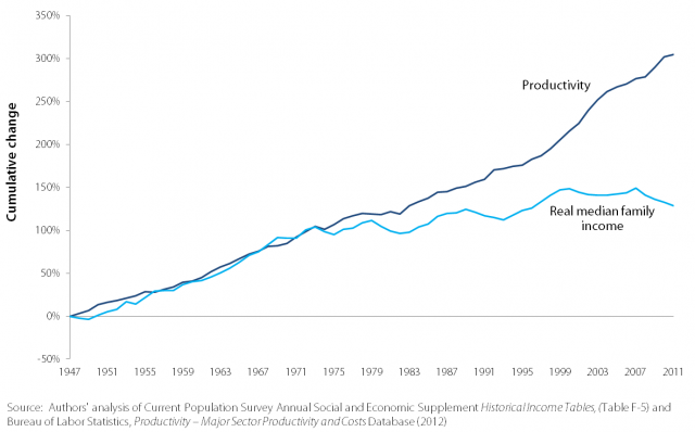 Chart comparing productivity growth and real median family income growth in the United States from 1947-2009. Source: Authors' analysis of Current Population Survey Annual Social and Economic Supplement Historical Income Tables, (Table F-5) and Bureau of Labor Statistics Productivity - Major Sector Productivity and Costs Database (2012)